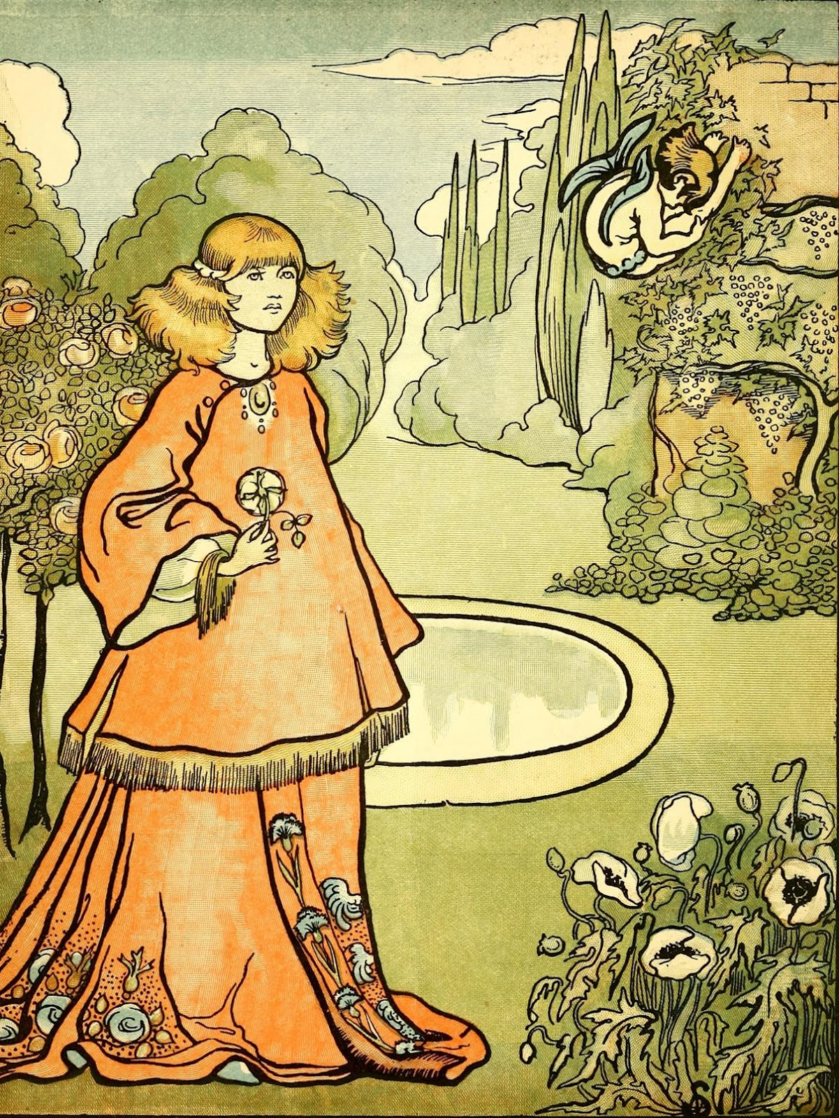 Illustration from The Other Side of the Sun, a compilation of short stories by Evelyn Sharp. Drawn by Nellie Syrette.